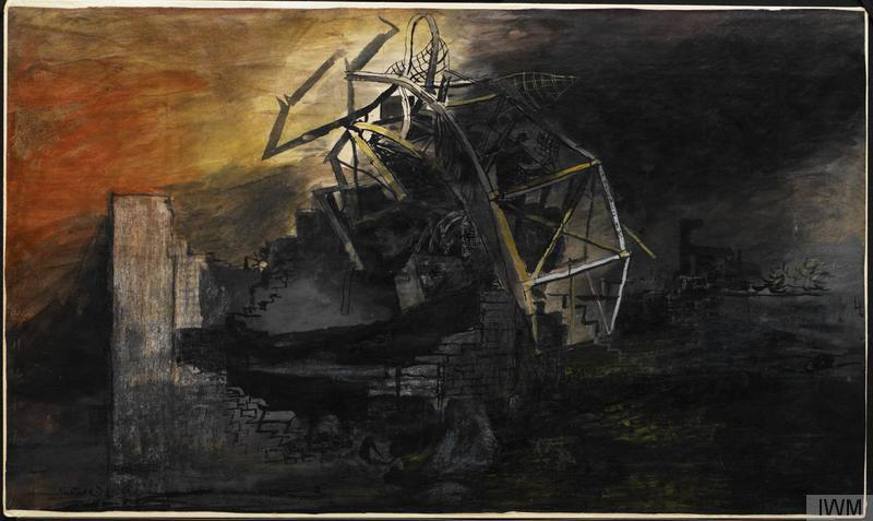 Bomb damaged buildings and twisted girders with smoke behind.